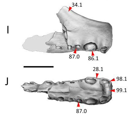 Palatal view (H) and Uktenadactylus wadleighi (specimen stored at the Southern Methodist University, Dallas, Texas, United States (SMU), SMU 73058), in right lateral view (I), and palatal view (J). Arrows show the character states in each skull. Scale bar 5 cm.